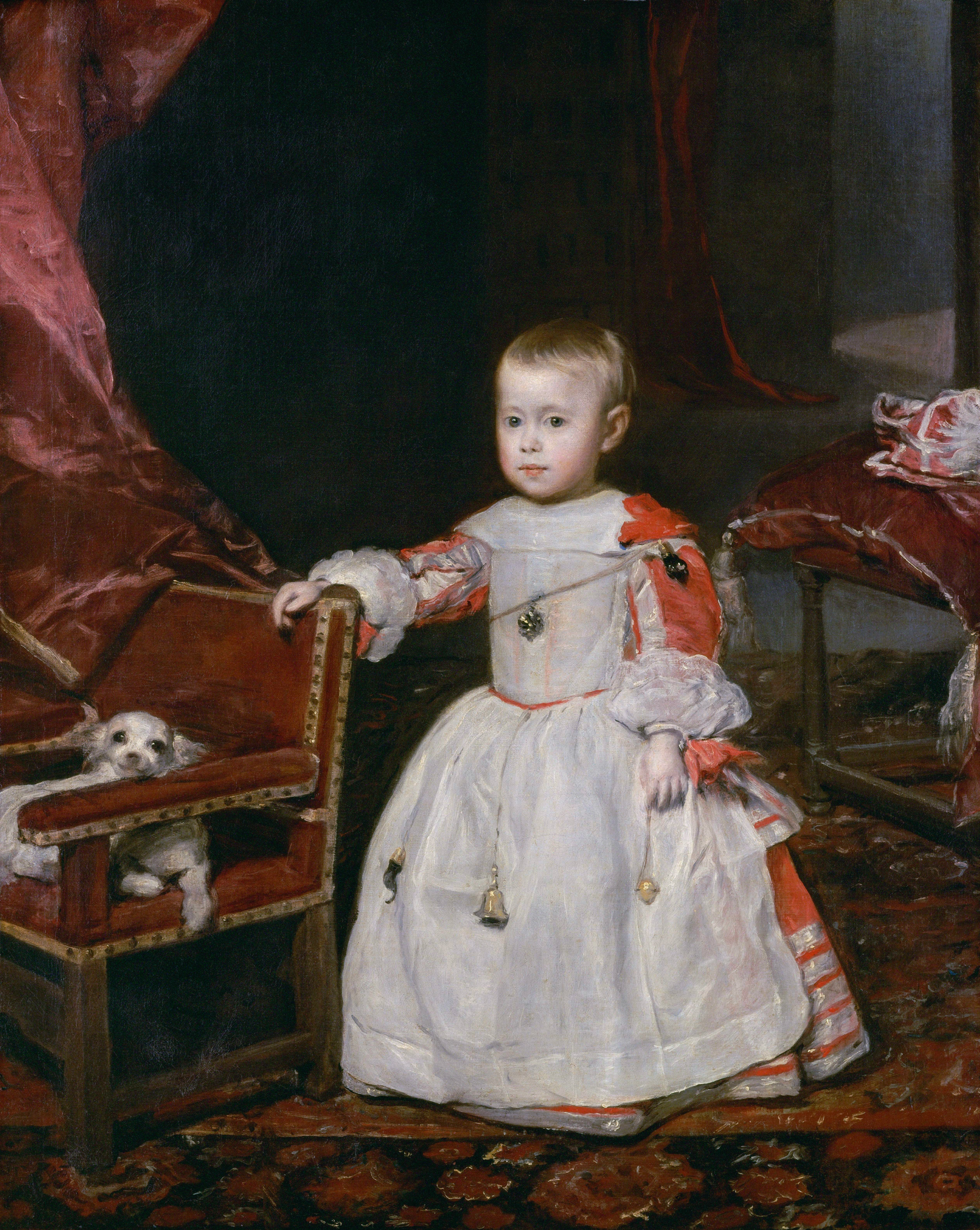 Full-length portrait of Infante Philip Prosper, Prince of Asturias (1657-1661).